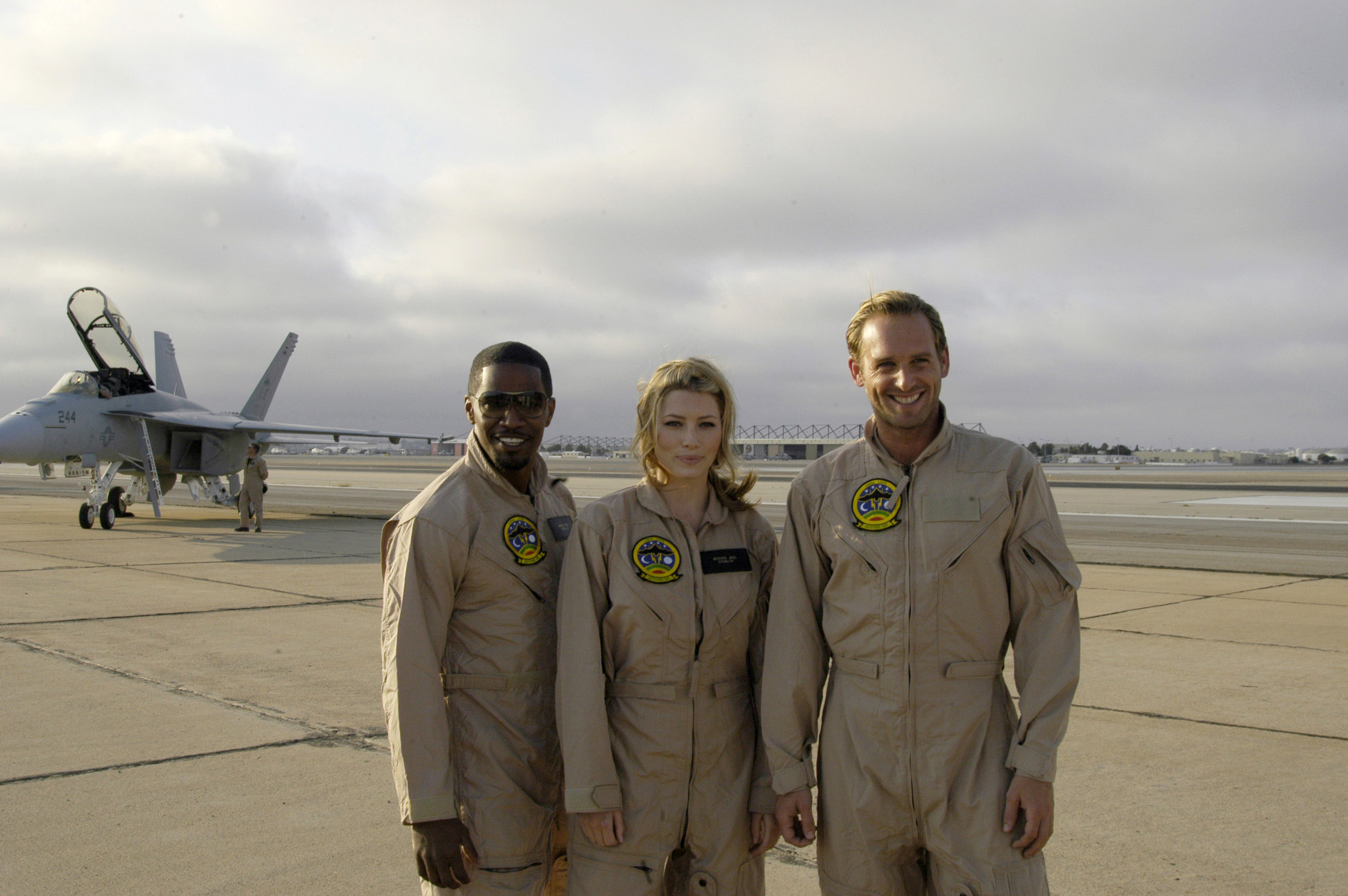 050717-N-9698C-020 San Diego (July 17, 2005) – Actor Jamie Foxx, Actress Jessica Biel and Actor Josh Lucas pose near an F/A-18F Super Hornet after arriving on board Naval Air Station North Island prior to the Hollywood premiere screening of the major motion picture movie “Stealth”. The U.S. Navy supported the production and portions of the movie were shot aboard several Navy vessels, including the nuclear powered aircraft carriers USS Nimitz (CVN 68), USS John C. Stennis (CVN 74), and USS Abraham Lincoln (CVN 72). U.S.